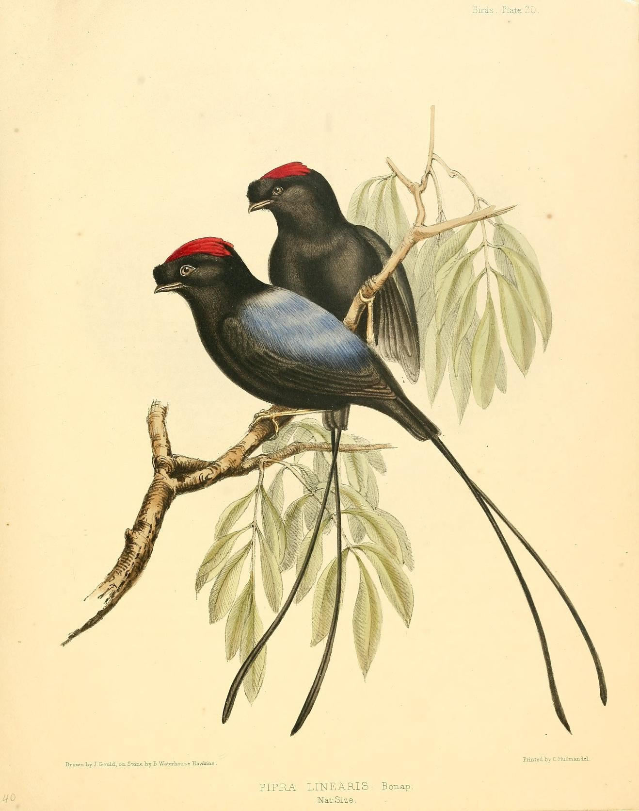 Birds . Plate ZC . Drawn ly J Gould, on Stone ~by B Wateraons e Hawkins • Printed Vj C HuUmandel. PIPRA LINEARIS- Bcmap Nat: Size.